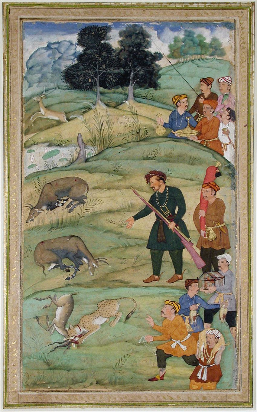 Series Title: Hunting Album Creation Date: ca. 1600 Display Dimensions: 7 27/32 in. x 4 29/32 in. (19.9 cm x 12.5 cm) Credit Line: Edwin Binney 3rd Collection Accession Number: 1990.316 Collection: The San Diego Museum of Art